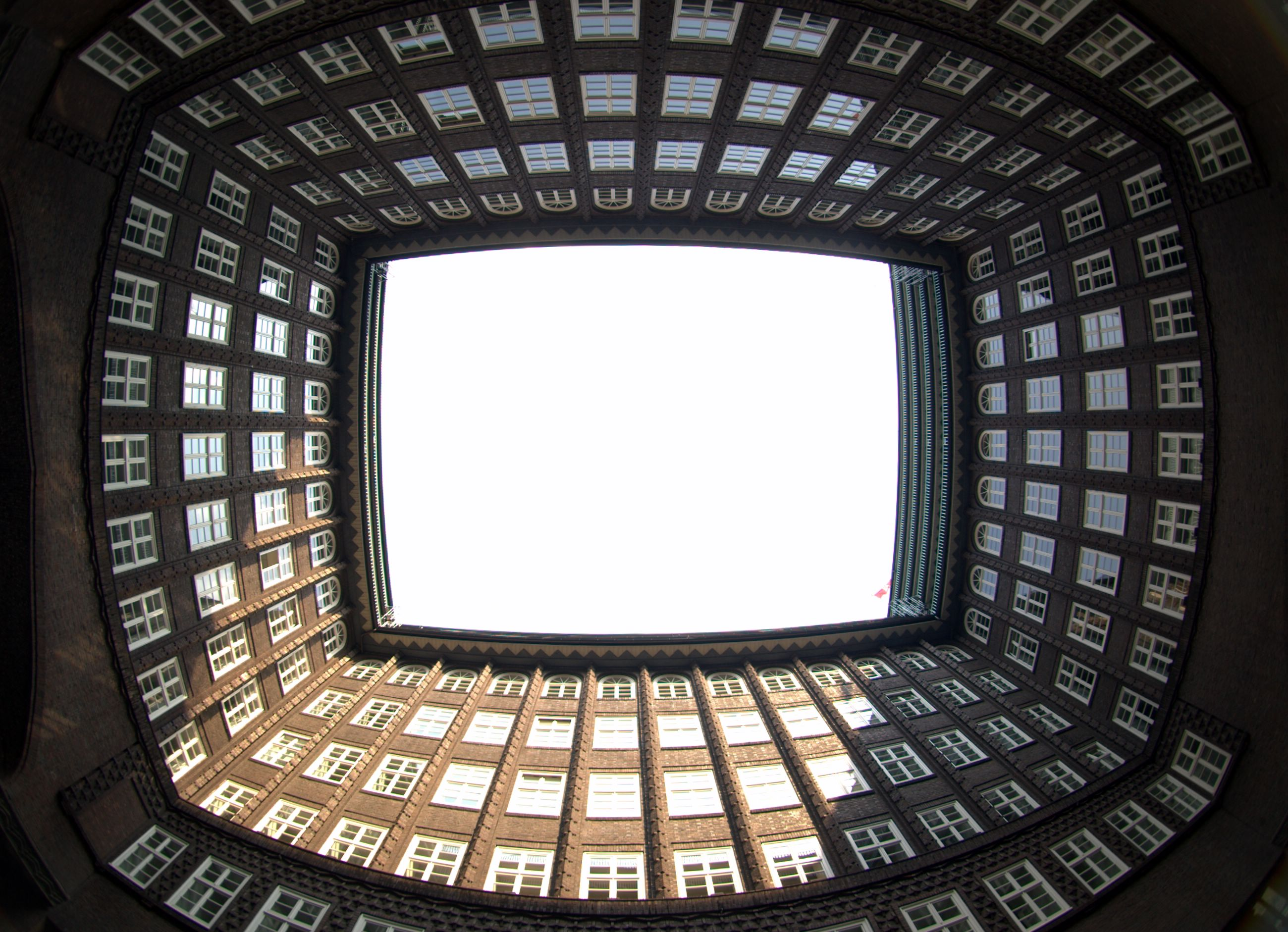 Chilehaus Hamburg This is a photograph of an architectural monument.